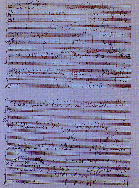 Manuscript of Bardengesang auf Gibraltar: O Calpe! Dir donnert's am Fusse by Mozart composed to commemorate the heroic defence of Gibraltar during the Great Siege.